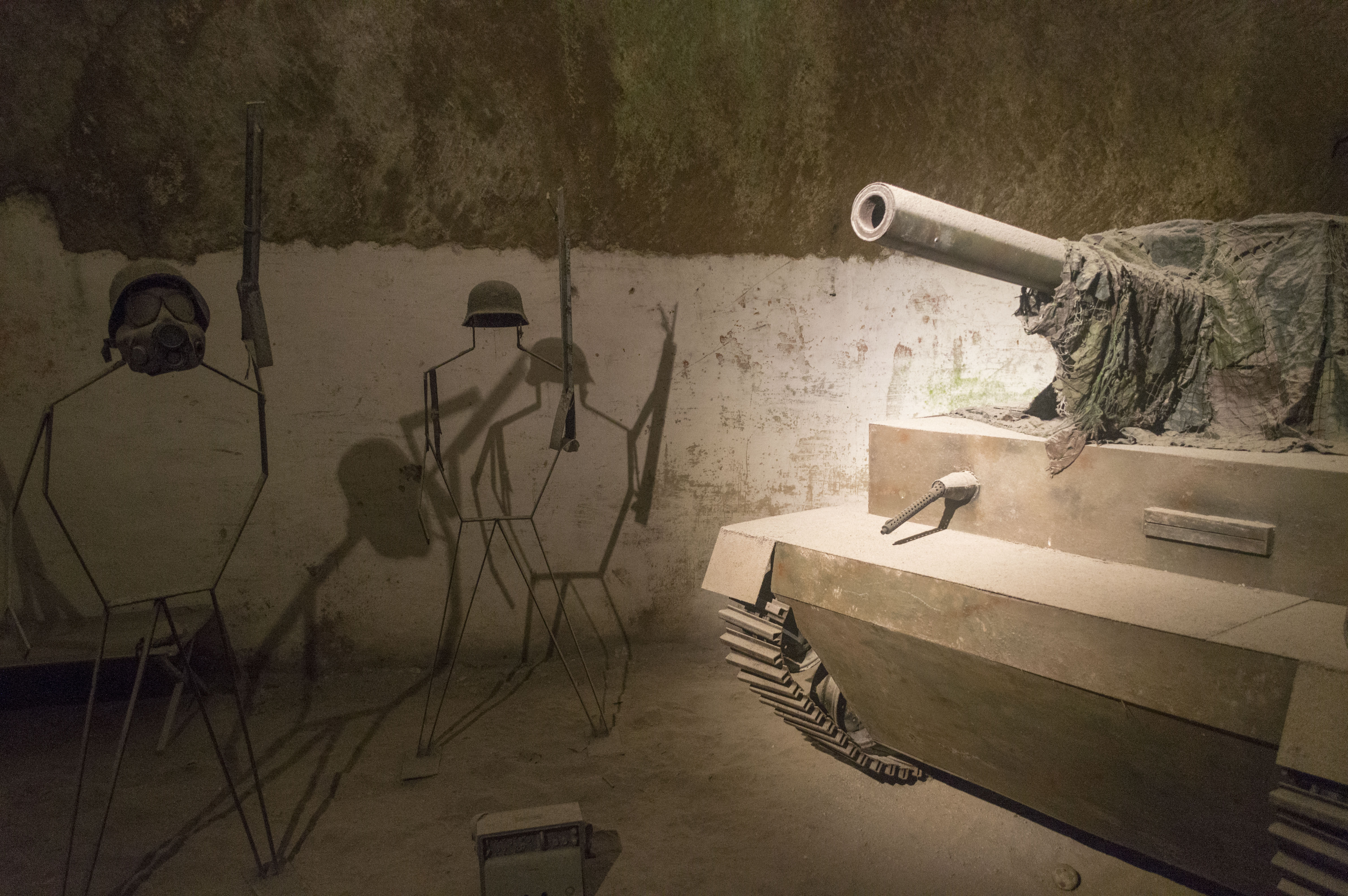 Underground of Naples.